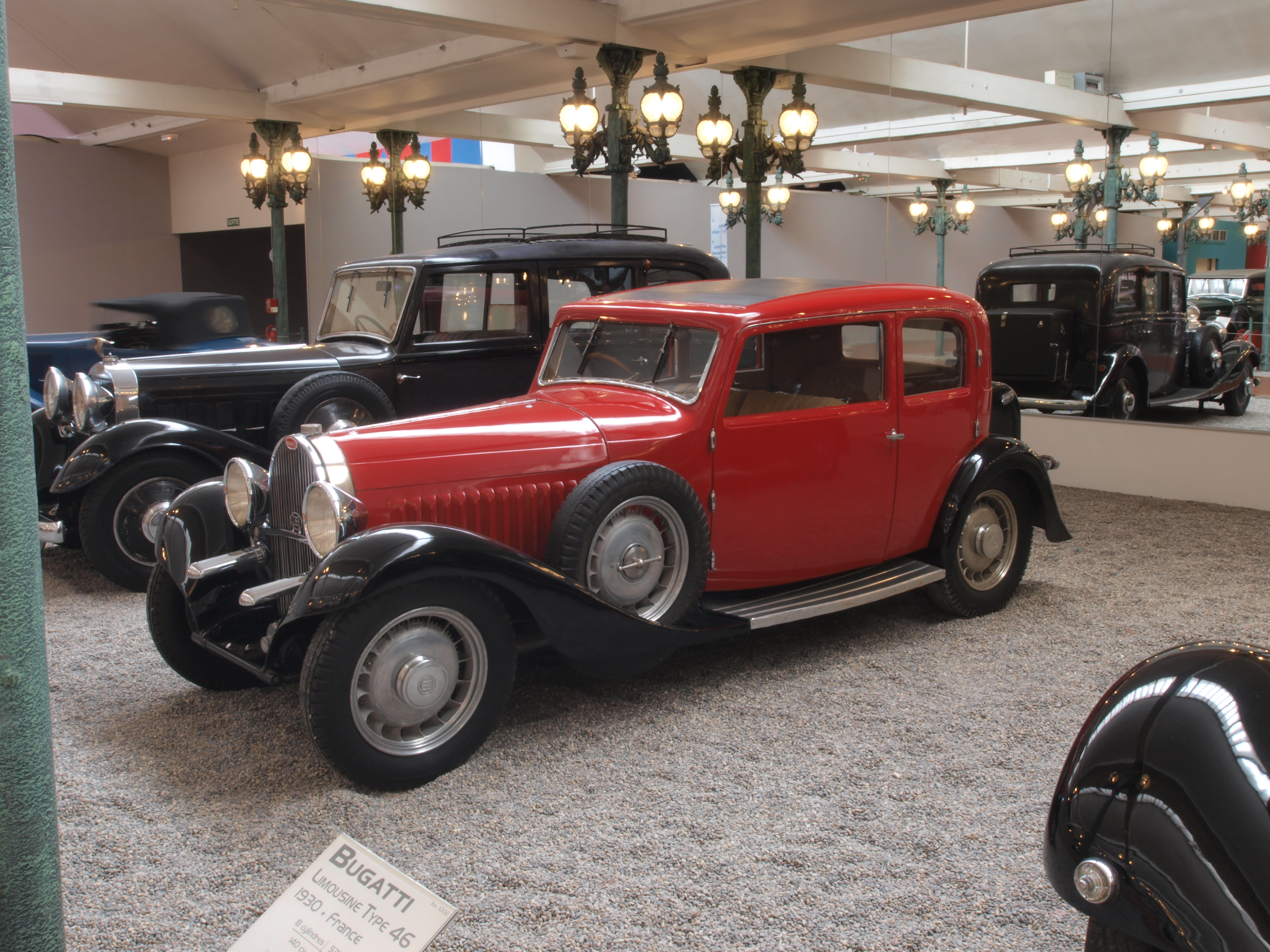 Photographed at the Cité de l’Automobile, France. OLYMPUS DIGITAL CAMERA